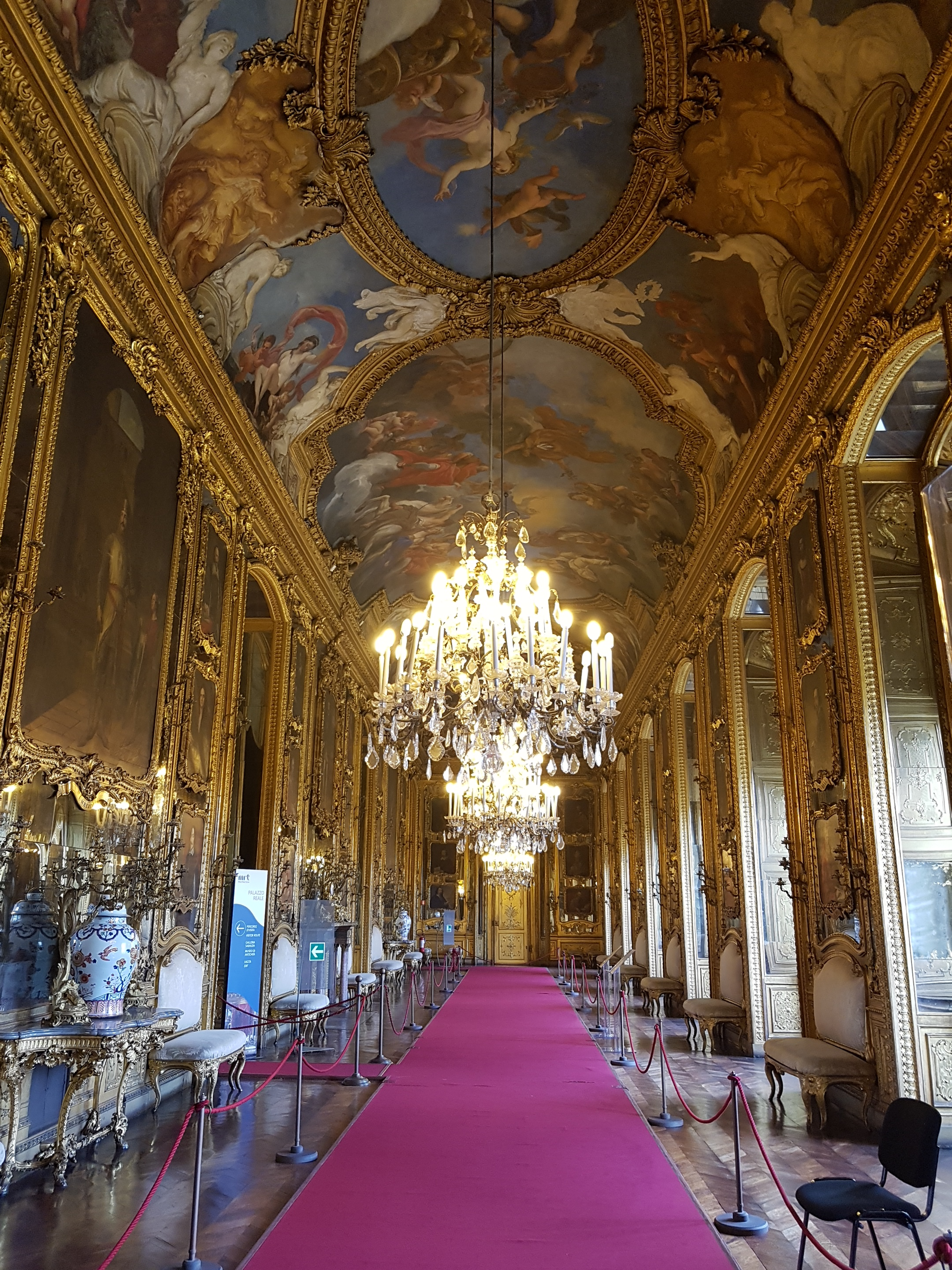 First Floor: Daniel's Gallery, Royal Palace of Turin, Northern Italy